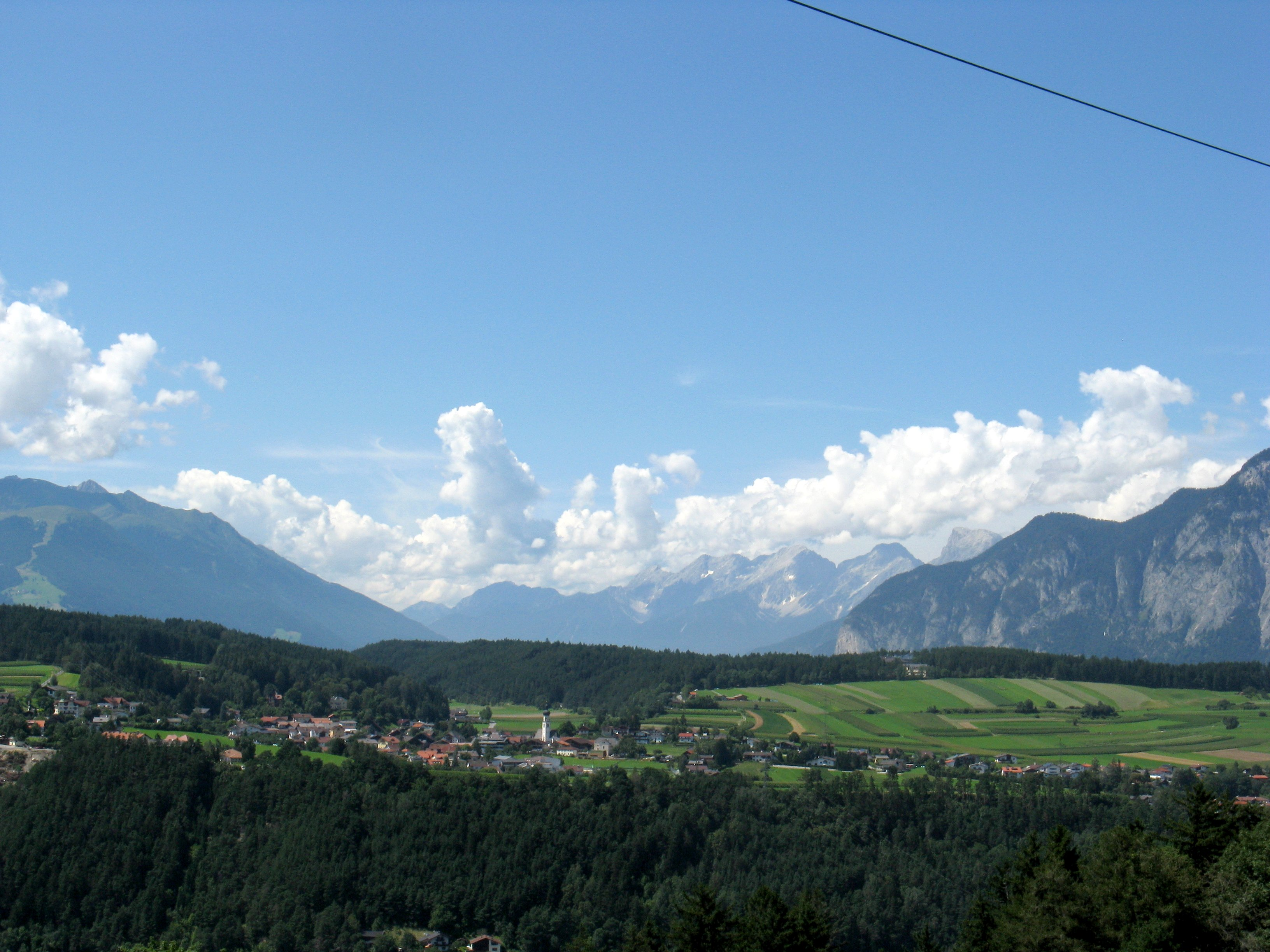 view of village Natters in Tyrol, Austria photo taken from: Igls